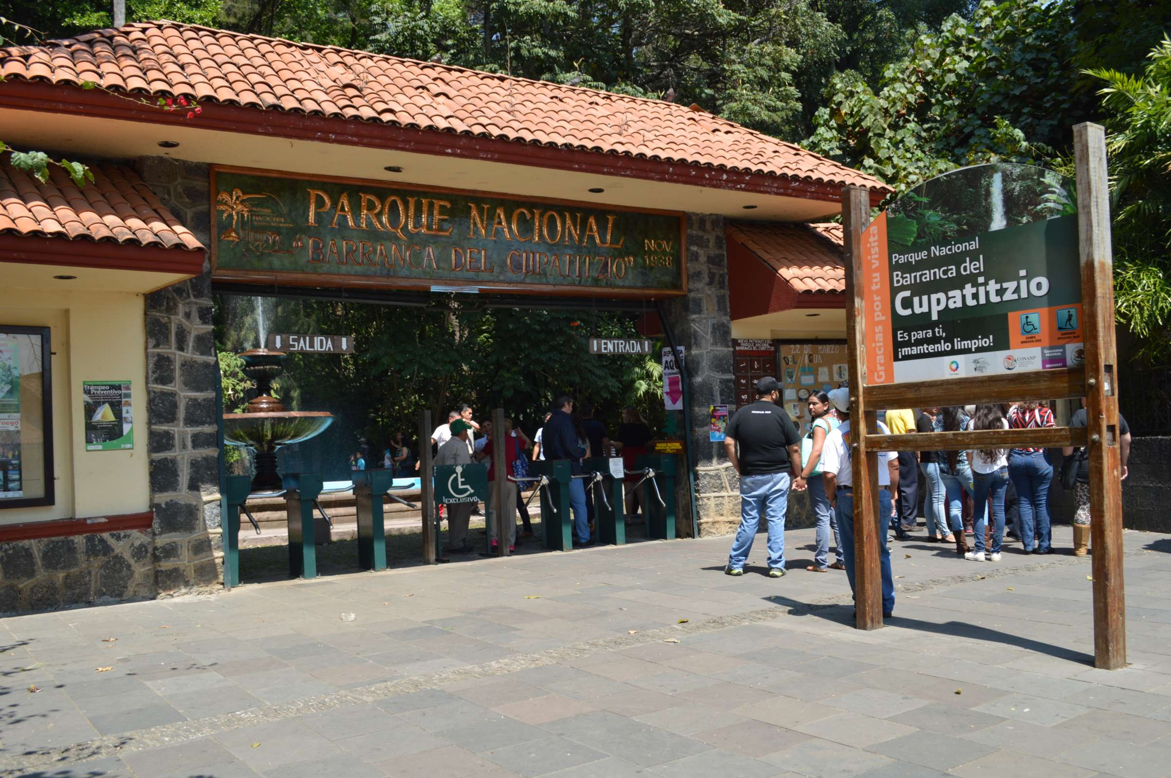 Main entrance to the Barranca de Cupatitzio National Park in Uruapan, Michoacan, Mexico